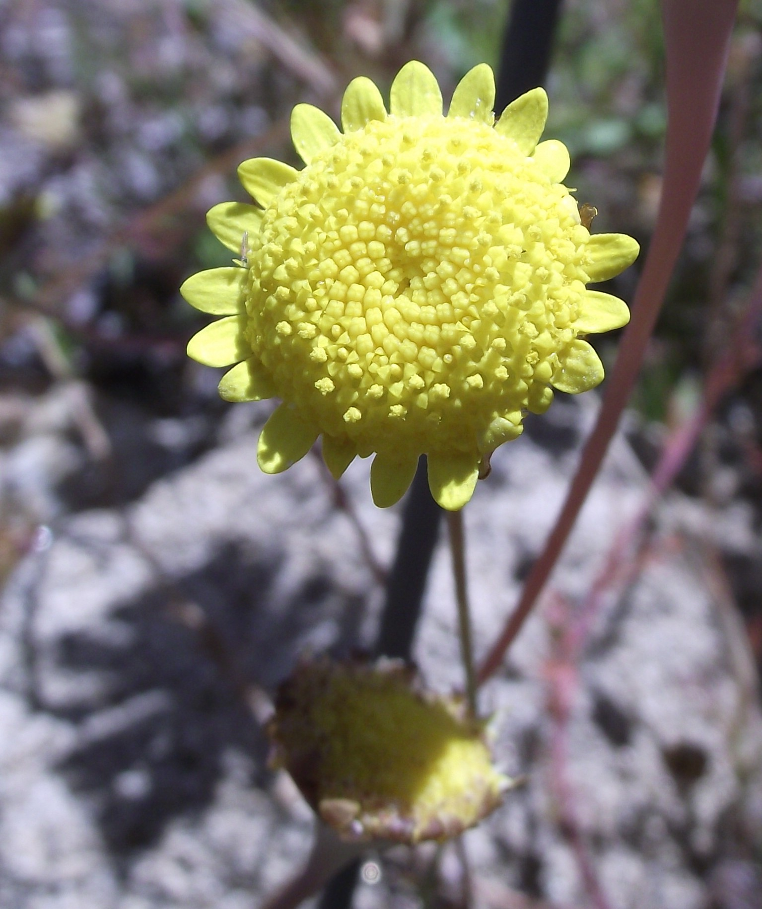 Cotula turbinata in the UC Botanical Garden, Berkeley, California, USA. Identified by sign.